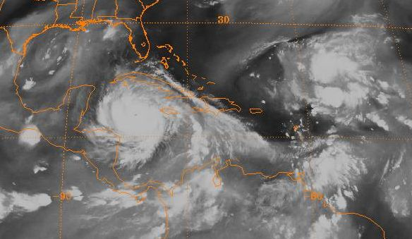 Satellite image of two upper tropospheric cyclonic vortices acting as outflow channels for Hurricane Dean (2007)